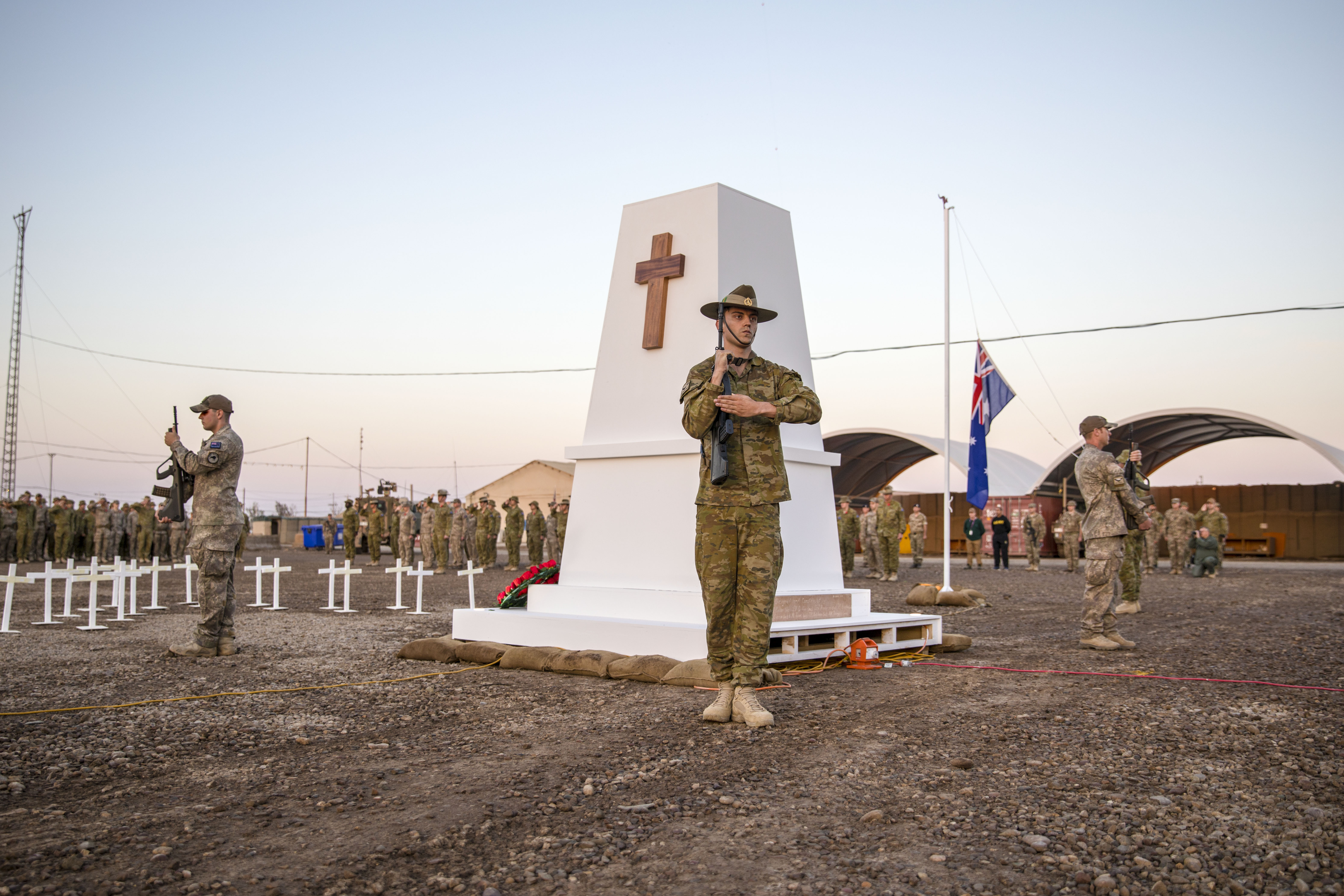 Australian army Pvt. Daniel Newman, with Task Group Taji, presents arms during the Australian national anthem while part of the Catafalque Party during the dawn service for Anzac Day at Camp Taji, Iraq, April 25, 2018. On Anzac Day, we remember not only the original Anzacs who died on April 25, 1915, but every one of the Australian and New Zealand service men and women who have served and died in all wars, conflicts, and peacekeeping operations.